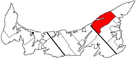 Adapted from existing Prince Edward Island election results maps to depict a specific electoral district.